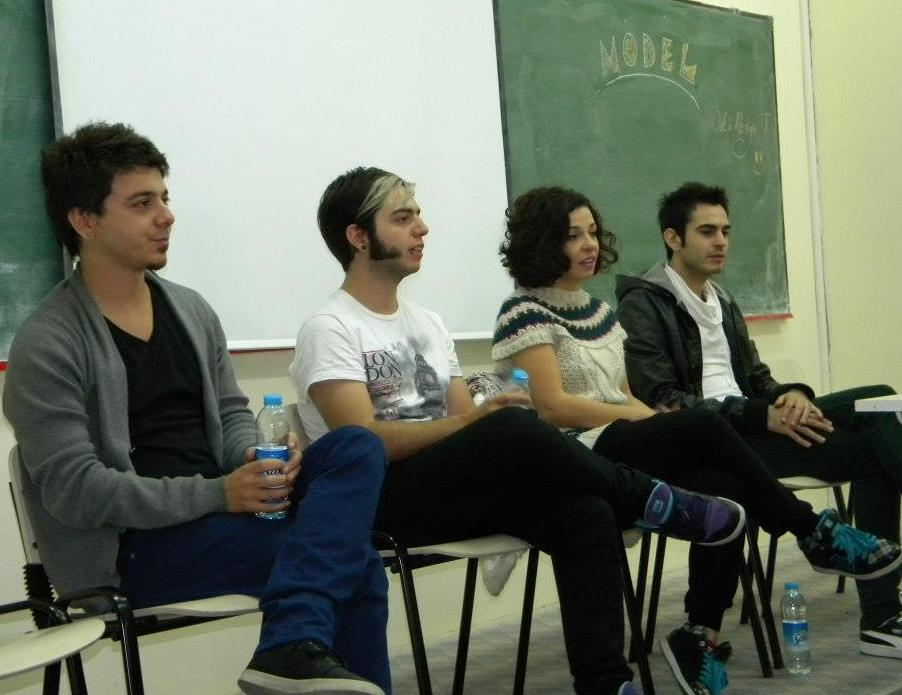 Model which is a Turkish Alternative Rock group in Middle East Technical University.